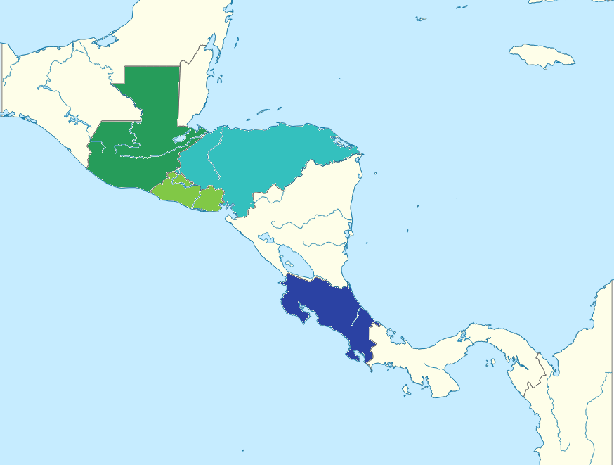 1991 UNCAF Nations Cup final placements